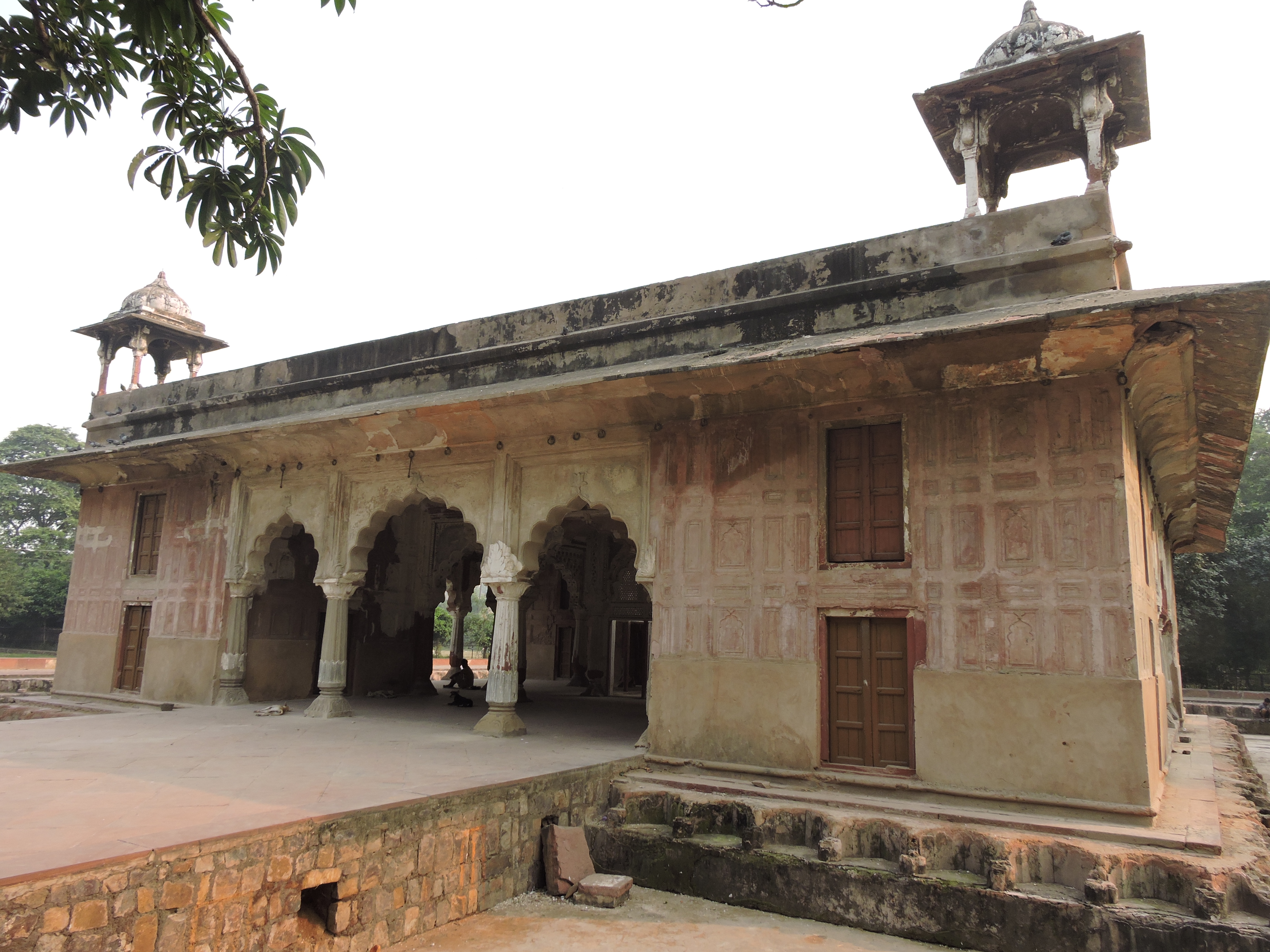 Tomb of Roshanara Begum ,the second daughter of the Mughal Emperor, Shah Jahan,north Delhi